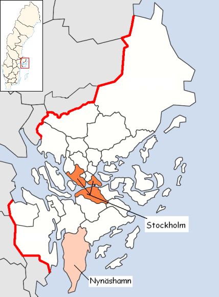 Nynäshamn Municipality in Stockholm County Designed by me. Mere outlines are a PD source from